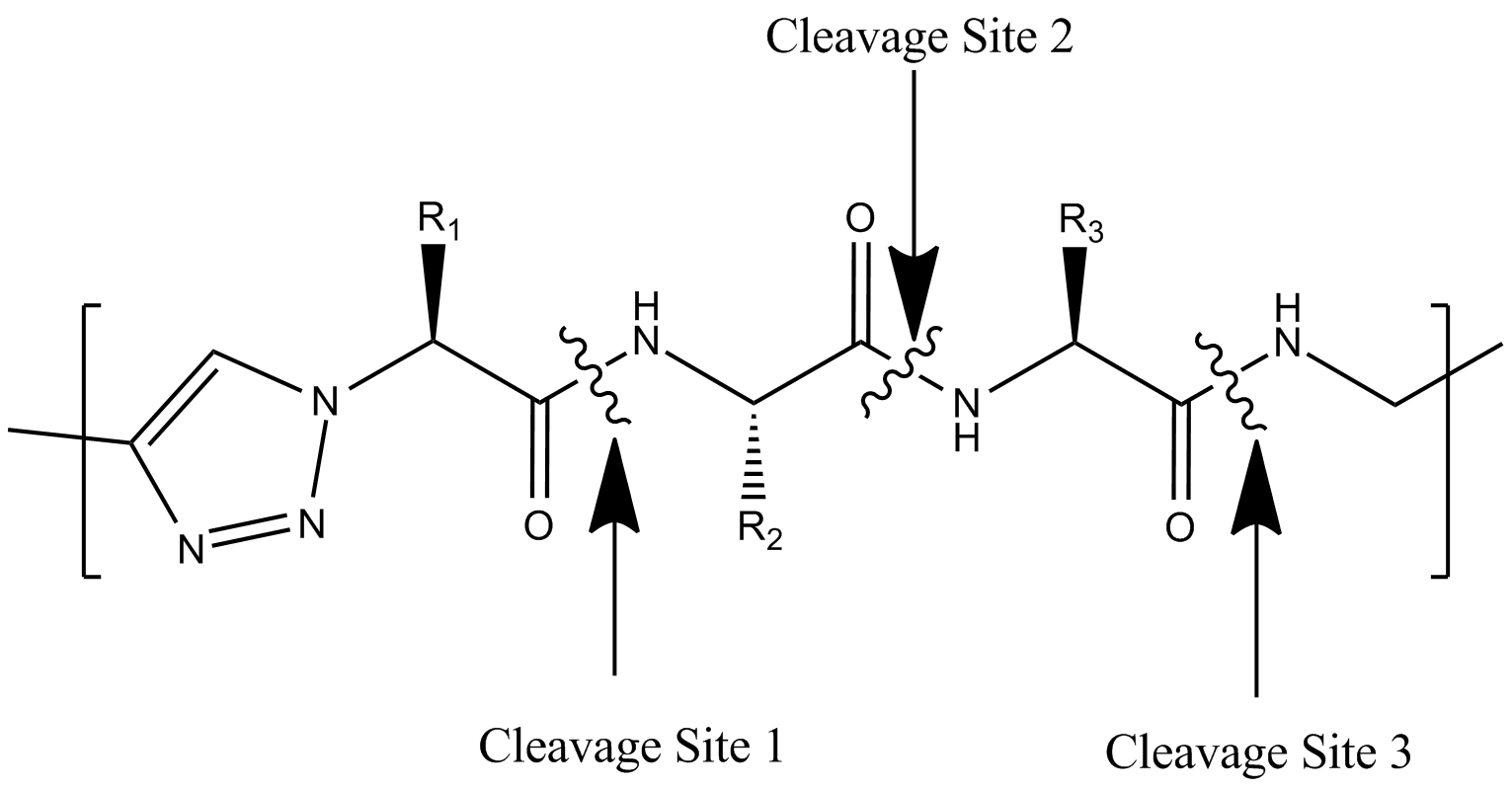 Degradation of a tripeptide clicked peptide polymer by proteases